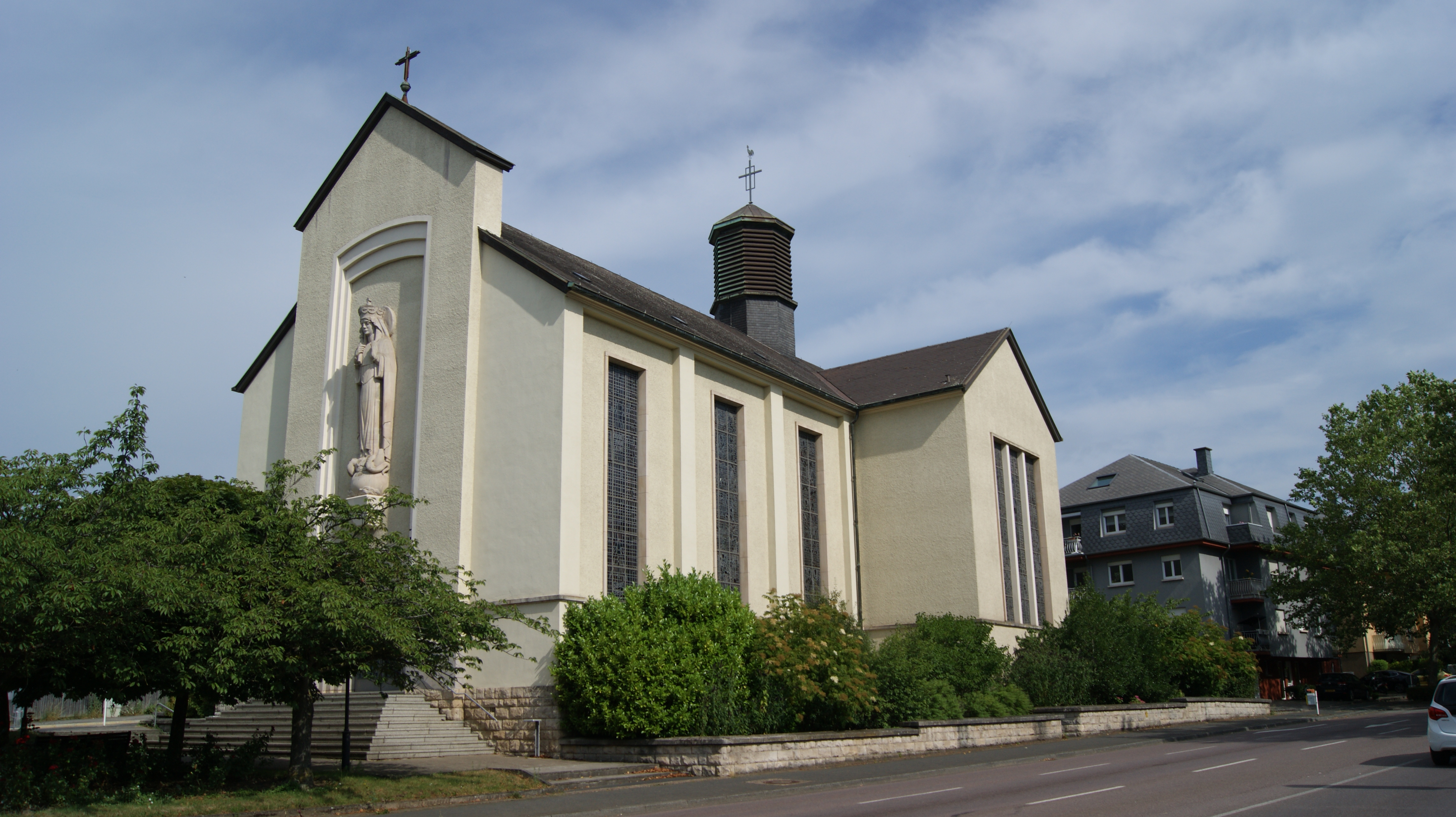 The Roman Catholic Church Marie-Reine du Monde (Eng.: Mary Queen of the World, also Luxembourgish: Kierch Esch-Lalleng) is located in the municipality of Esch-sur-Alzette, in the district Lallange, in the Grand Duchy of Luxembourg.